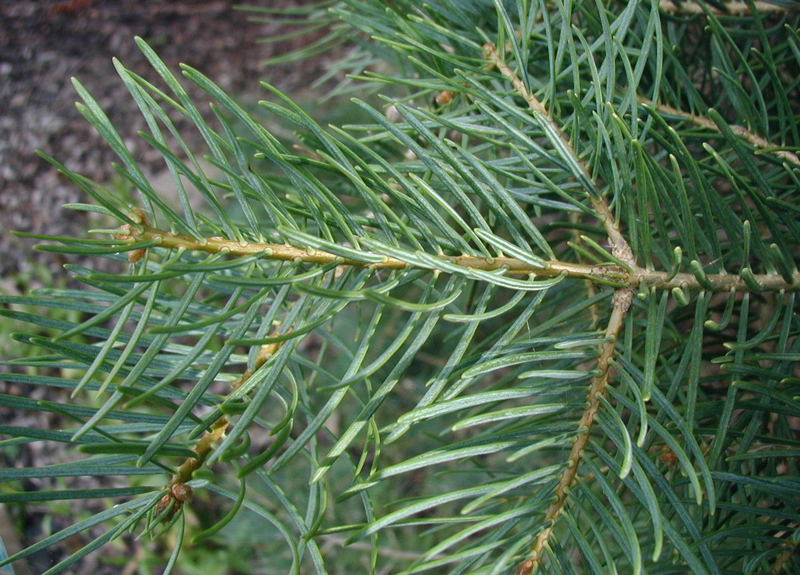 Abies concolor: Needles